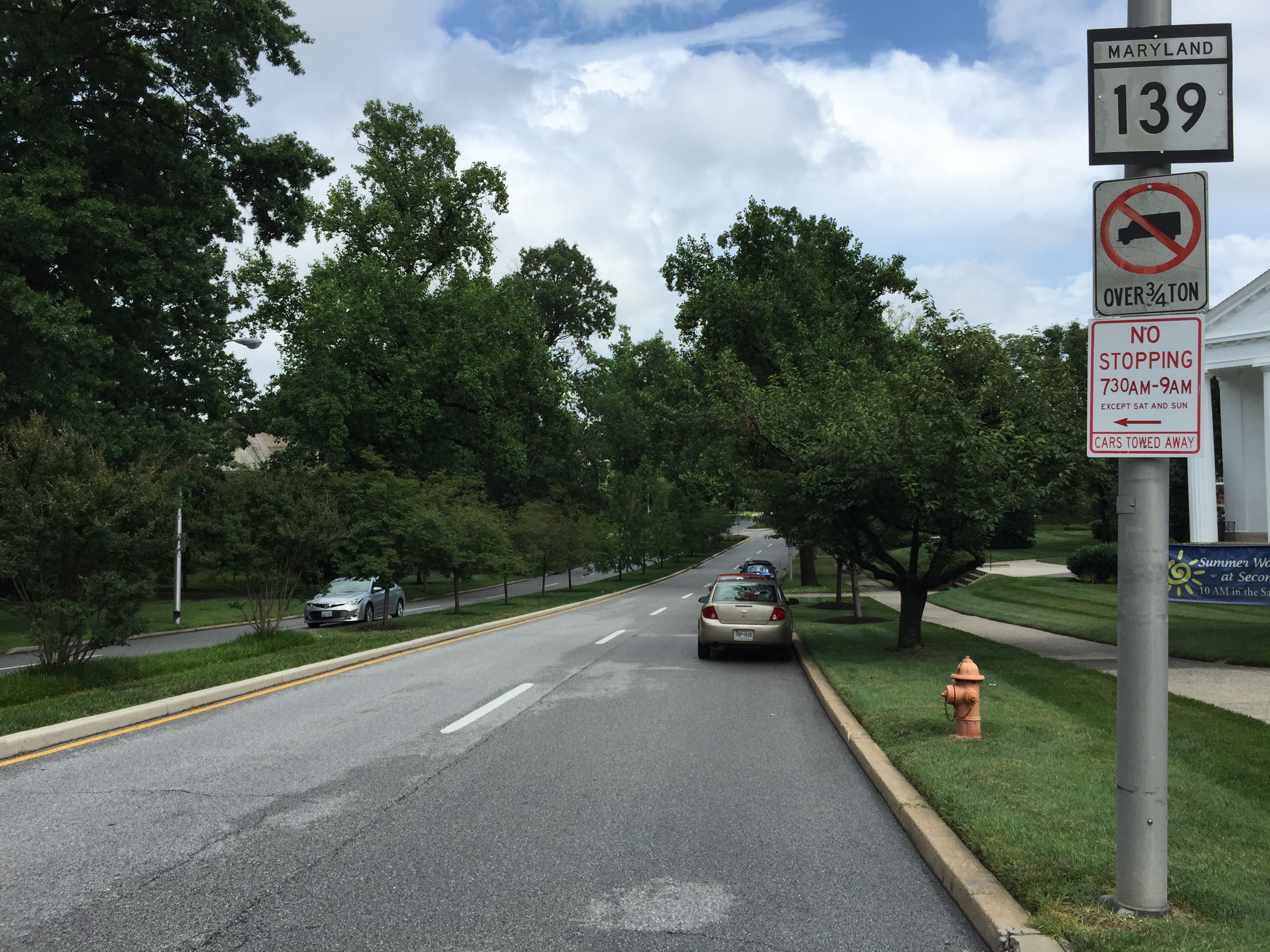 View south along Maryland State Route 139 (St. Paul Street) at Charlcote Road in Baltimore City, Maryland